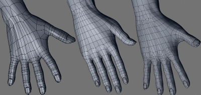 Examples of hands created by the MakeHuman software